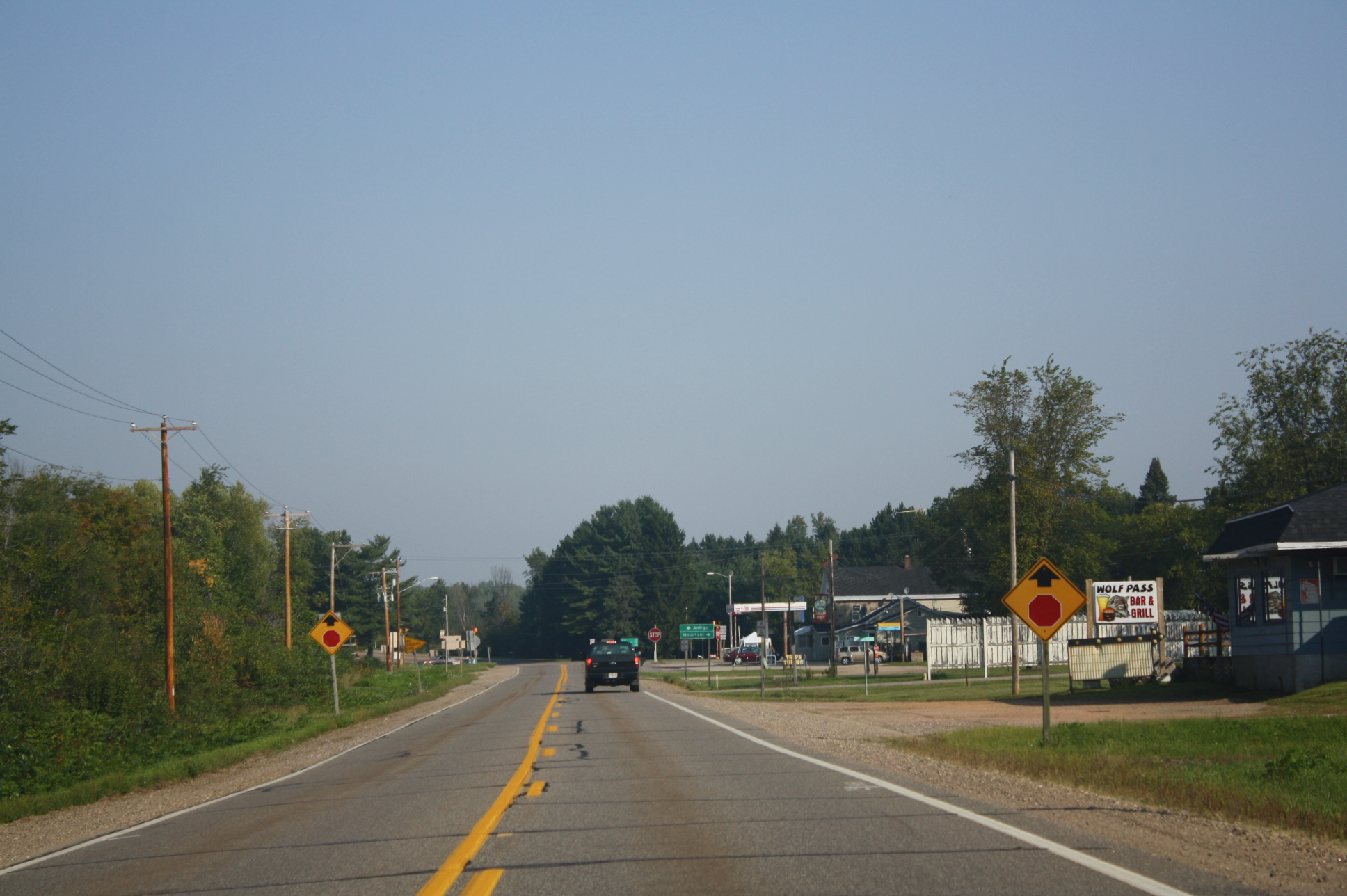 Looking north at the unincorporated community of Langlade (community), Wisconsin in Langlade County, Wisconsin on Wisconsin Highway 55.